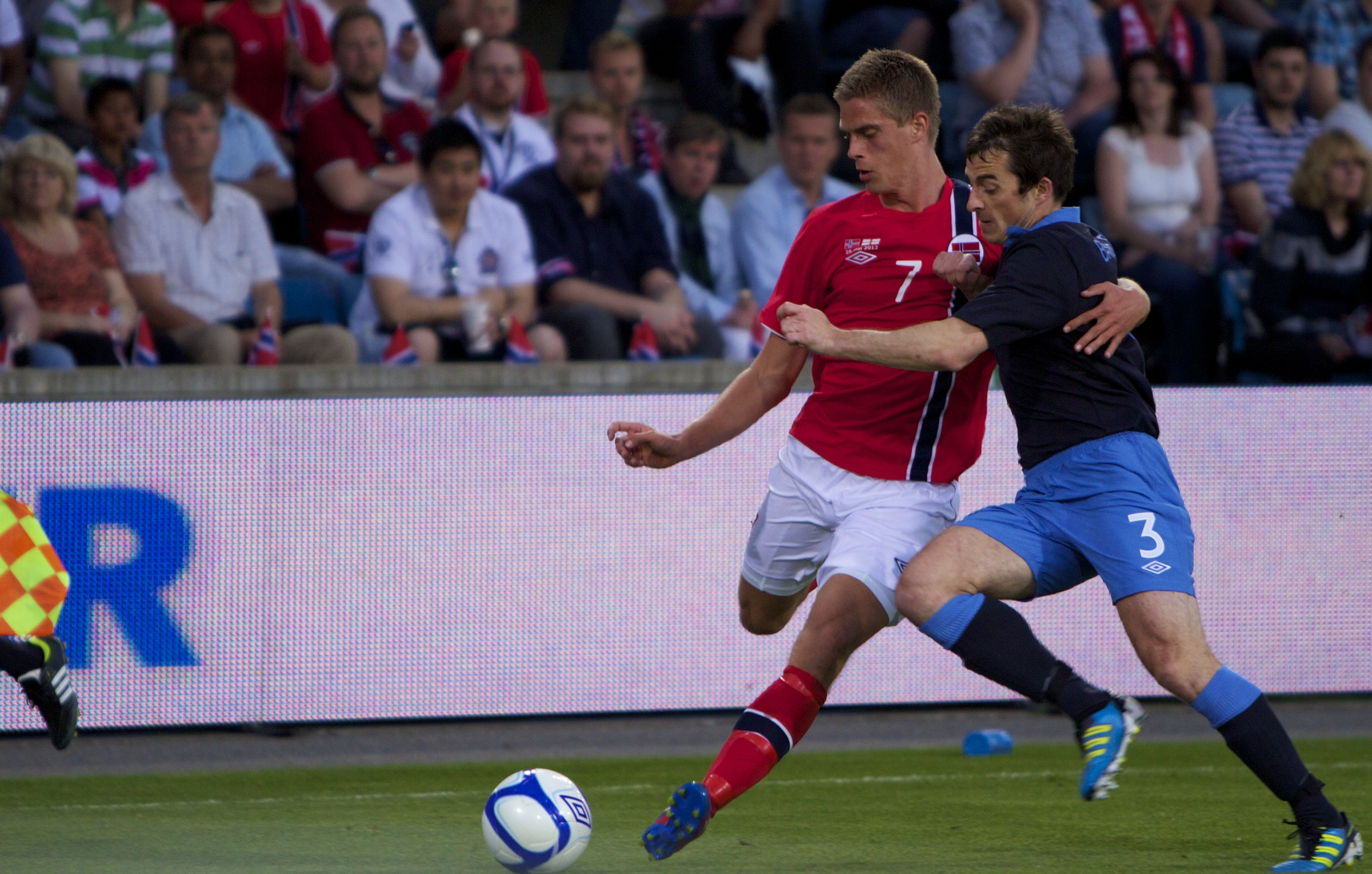 Markus Henriksen of Norway with the ball, May 2012 in Oslo.